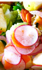 A close up of a fresh raw food dish